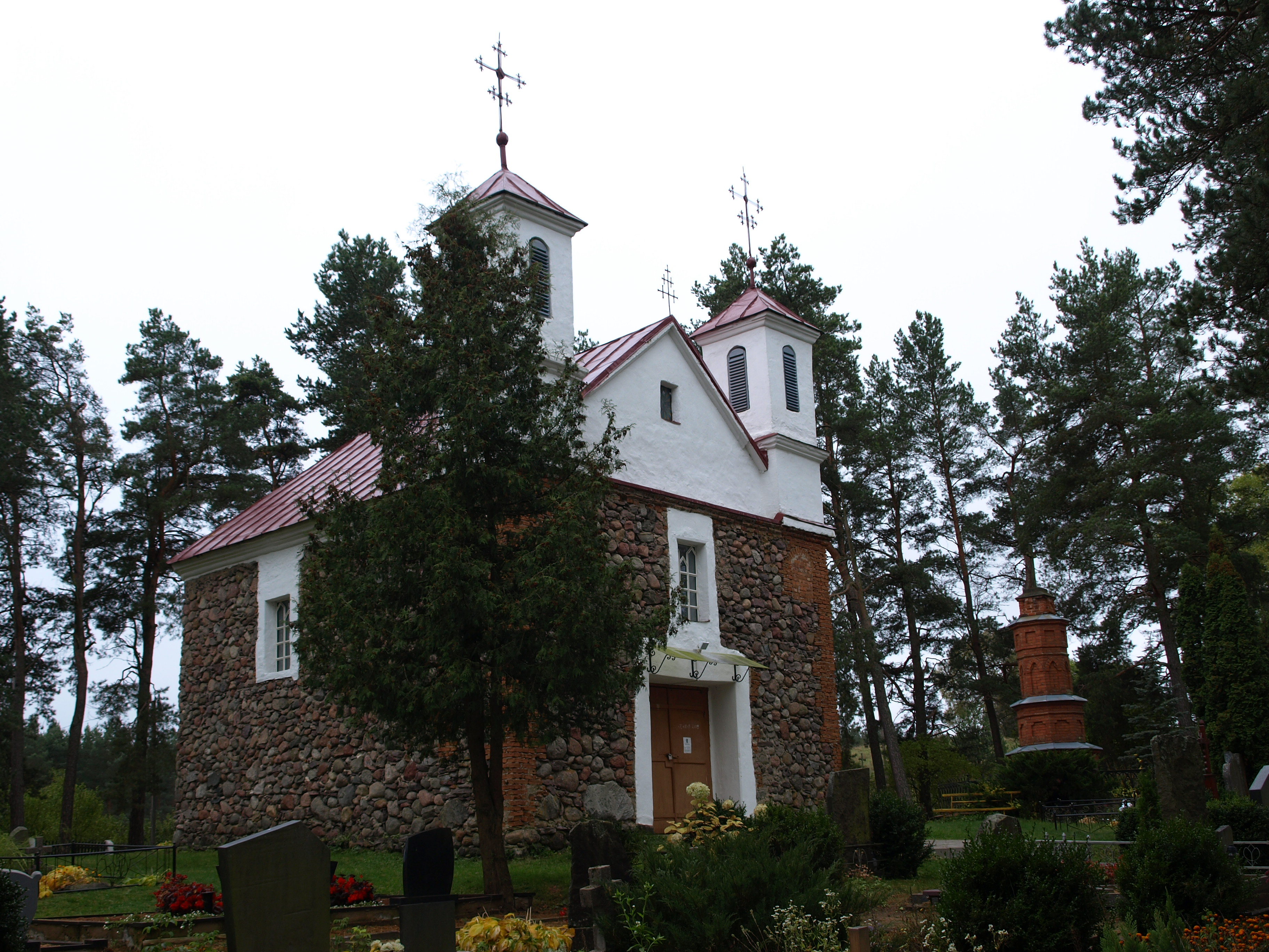 Babriškės church, Varėna district